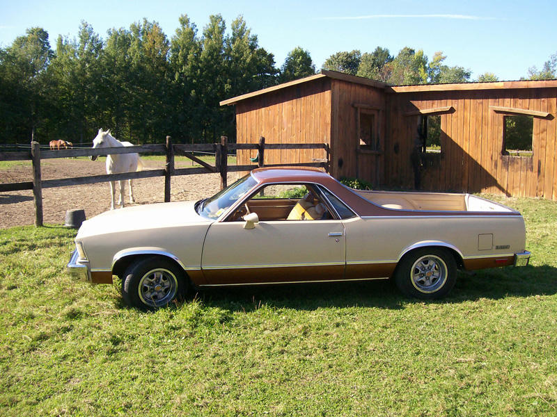 1979 Chevrolet El Camino